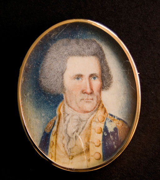 Image courtesy of the Tennessee Portrait Project.